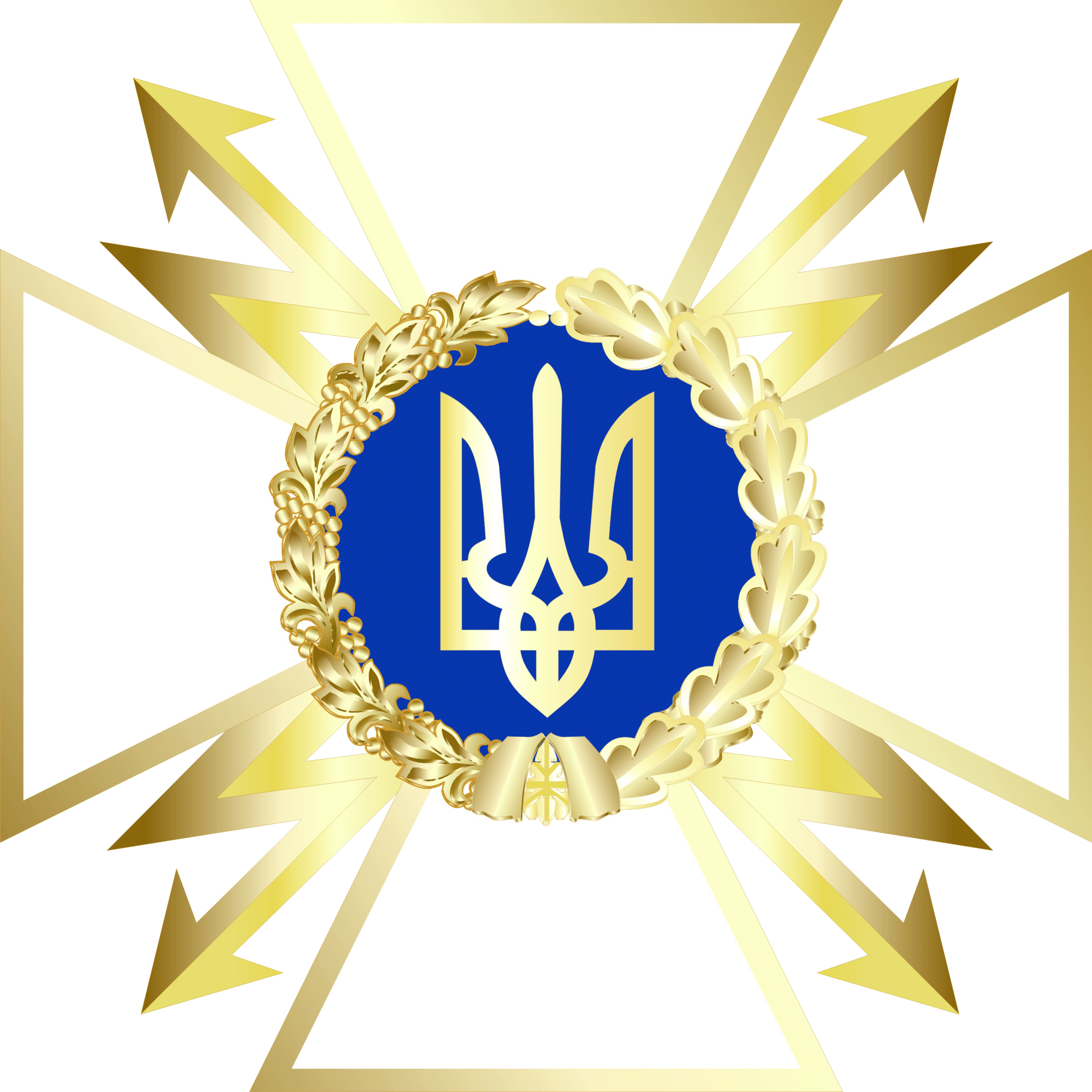 State Special Communications Service of Ukraine Emblem